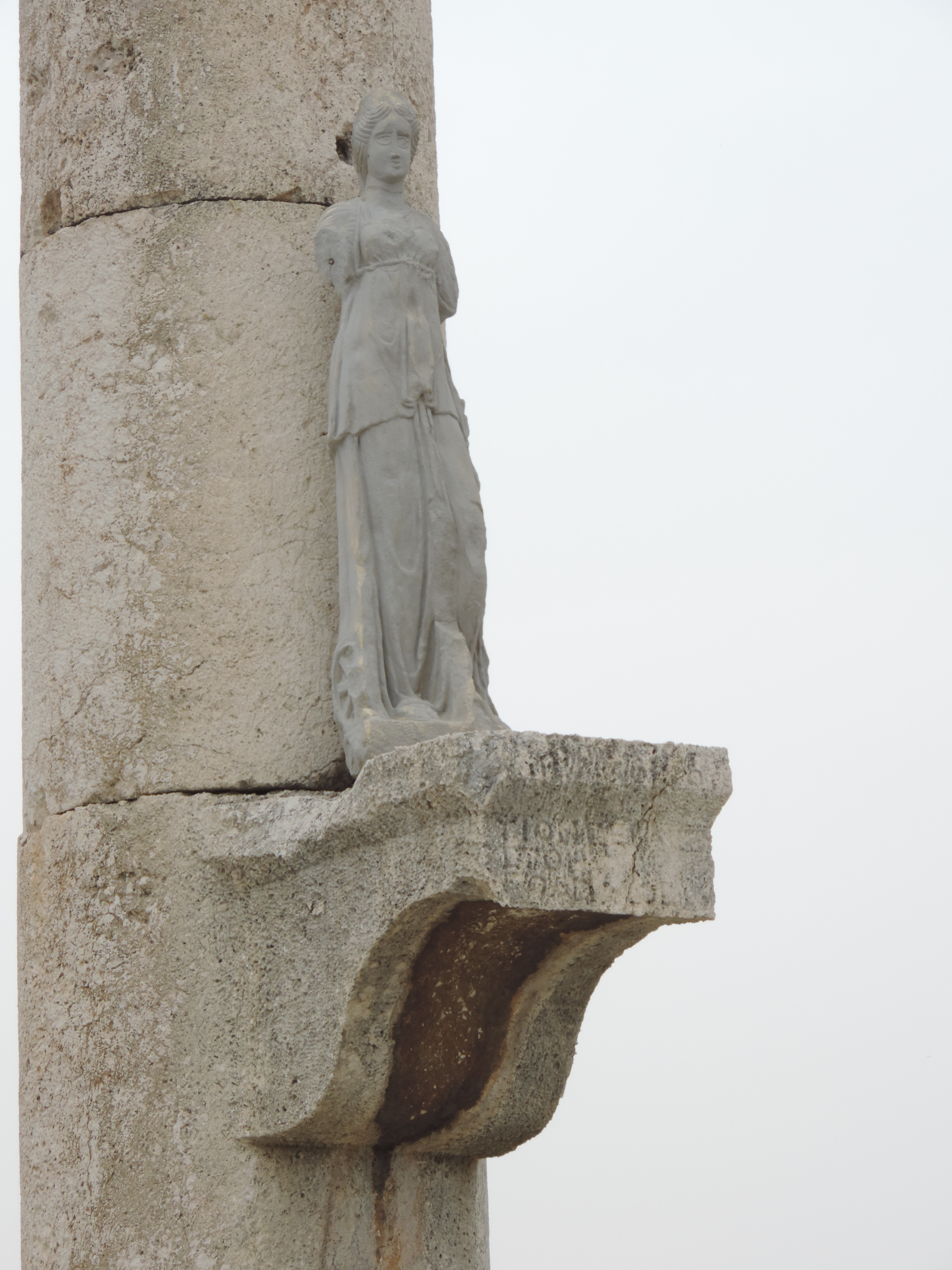 A column, remaining from the ancient town Soli / Pompeiopolis, Cilicia, nowadays near Mersin, Turkey.